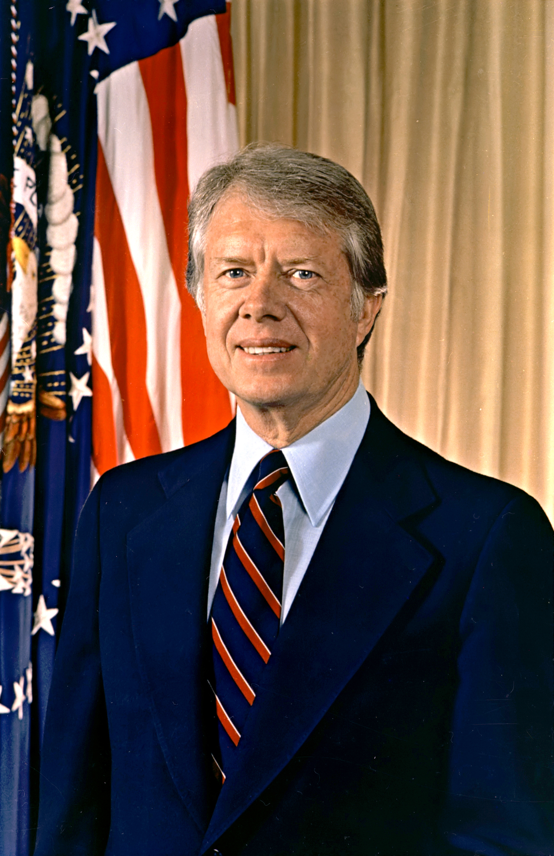 Jimmy Carter's presidential portrait